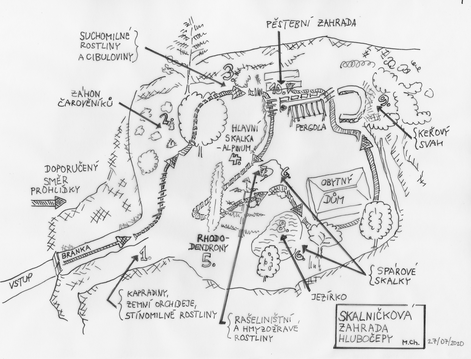 Orientation plan of the rock garden Hlubočepy with the recommended direction of the tour.